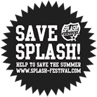 SaveSplashButton